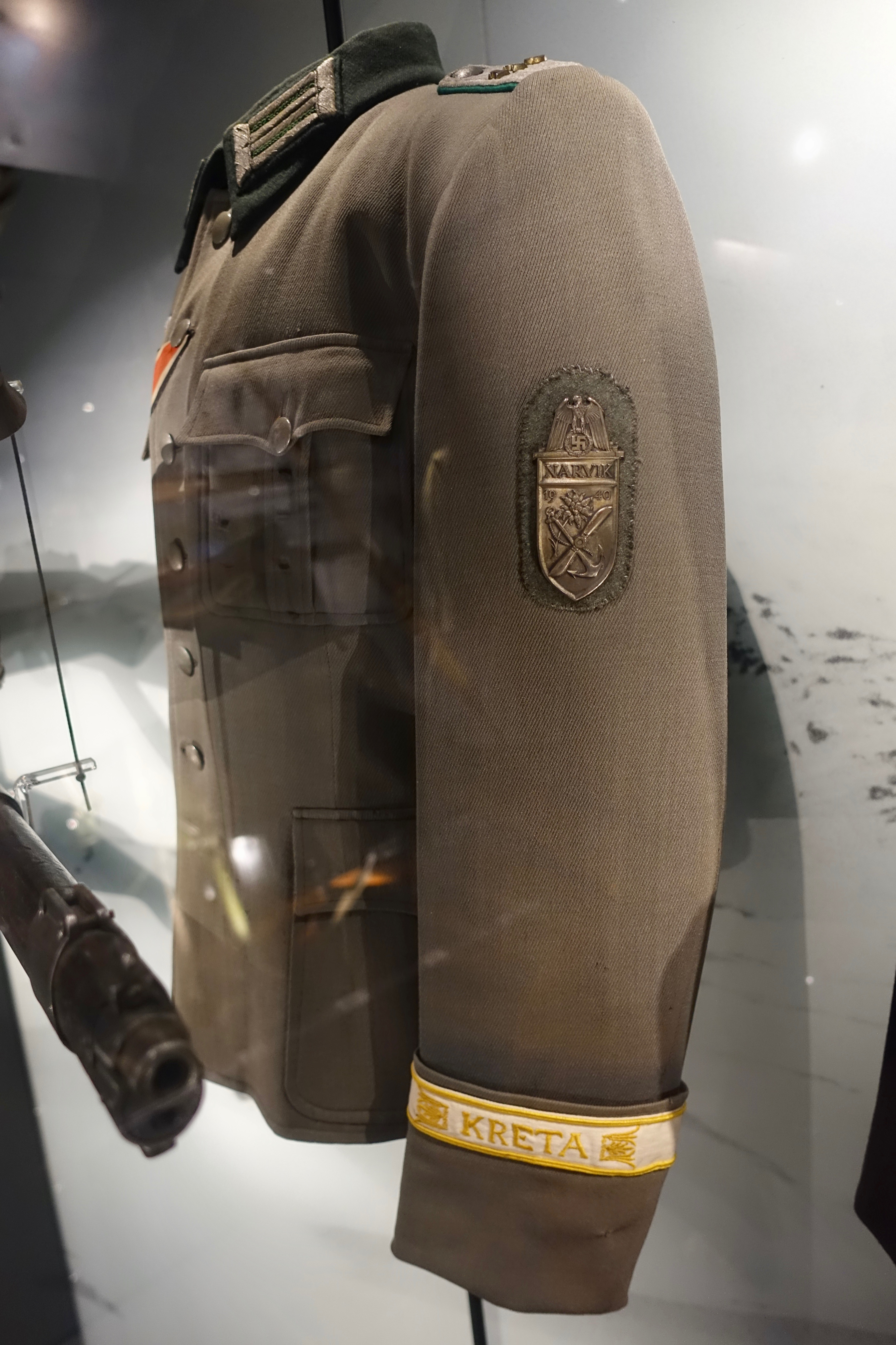 WW2 Nazi German Wehrmacht Heer (army) uniform in Norway 1940. Officer's tunic (Lieutenant), with Narvik Shield and Crete (Kreta) cuff title. Photo taken on 31 March 2019 at Norwegian Armed Forces Museum (Forsvarsmuseet) in Oslo, Norway. Legal disclaimer This image shows (or resembles) a symbol that was used by the National Socialist (NSDAP/Nazi) government of Germany or an organization closely associated to it, or another party which has been banned by the Federal Constitutional Court of Germany. The use of insignia of organizations that have been banned in Germany (like the Nazi swastika or the arrow cross) are also illegal in Austria, Hungary, Poland, Czech Republic, France, Brazil, Israel, Ukraine, Russia and other countries, depending on context. In Germany, the applicable law is paragraph 86a of the criminal code (StGB), in Poland – Art. 256 of the criminal code (Dz.U. 1997 nr 88 poz. 553).